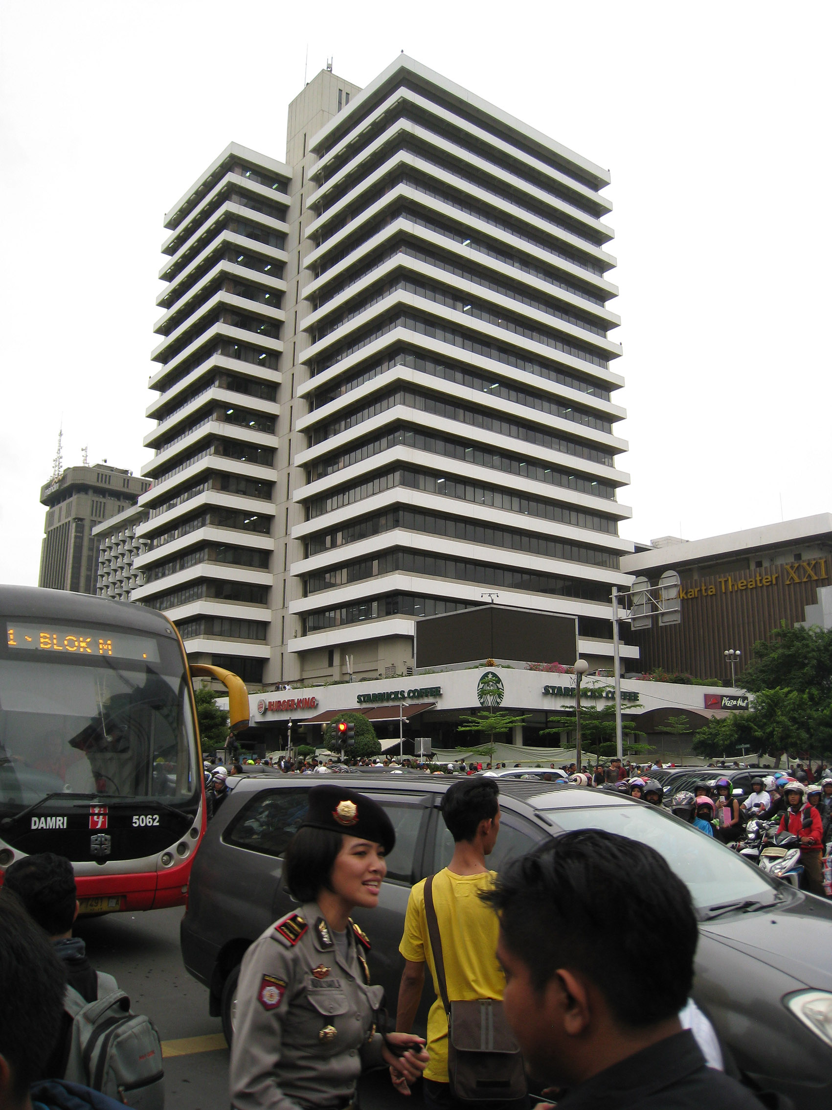 Starbucks cafe, Menara Cakrawala, Jalan MH Thamrin. Location of Sarinah-Starbucks terrorist attack in Central Jakarta, 14 January 2016.